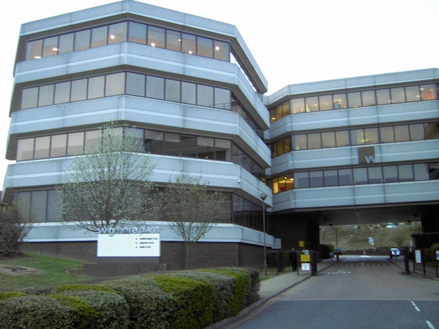 Wigmore Place, an office block at the junction of Eaton Green Road and Wigmore Lane, head office of TUI UK and Thomson Airways - Picture taken at dusk - hence the poor light quality.